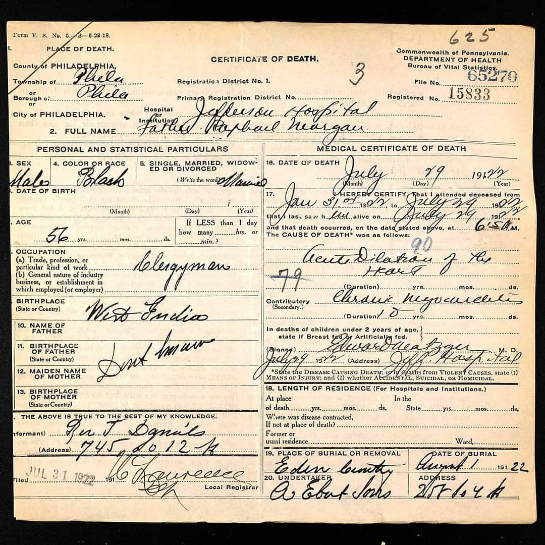 Fr Raphael Morgan died July 29, 1922 and buried August 1, 1922